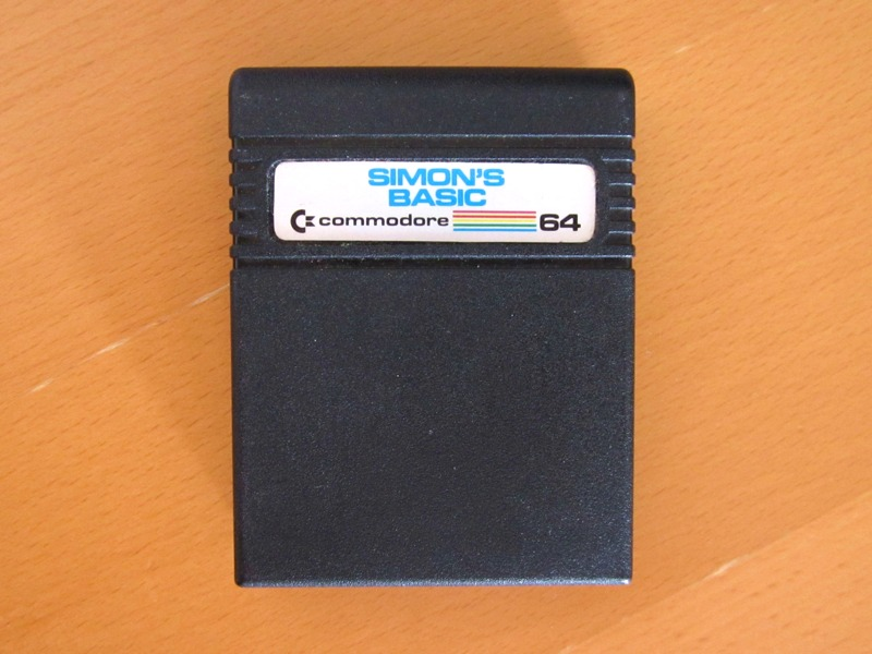 One of the few, rare Simons' BASIC cartridges from the first batch with the misspelled "Simon's BASIC" label.